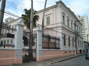 Central Campus of Pontifícia Universidade Católica de Campinas.